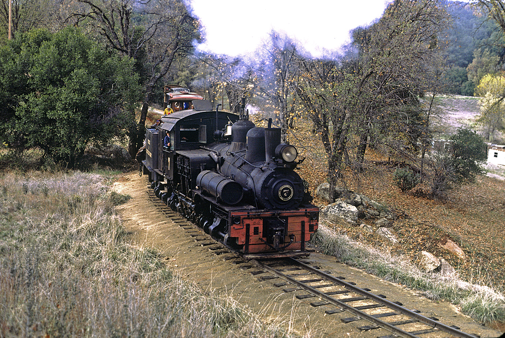 Westside Lumber Co. Shay #7 operating as Westside & Cherry Valley at Tuolumne, CA, November of 1981. This engine is now at Roaring Camp in Felton, CA.